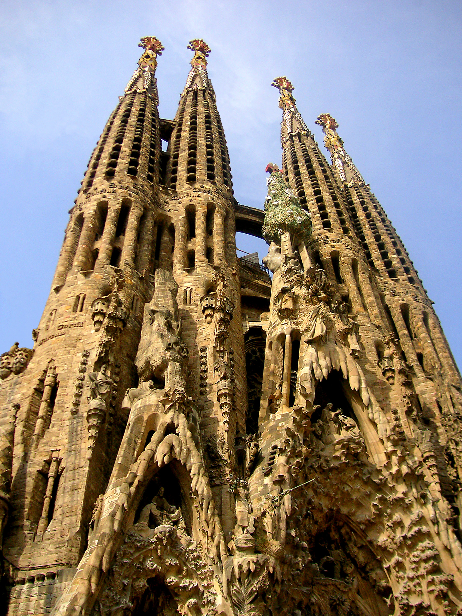 Photo of the cathedral 'Sagrada Família' in Barcelona/Spain. XYI